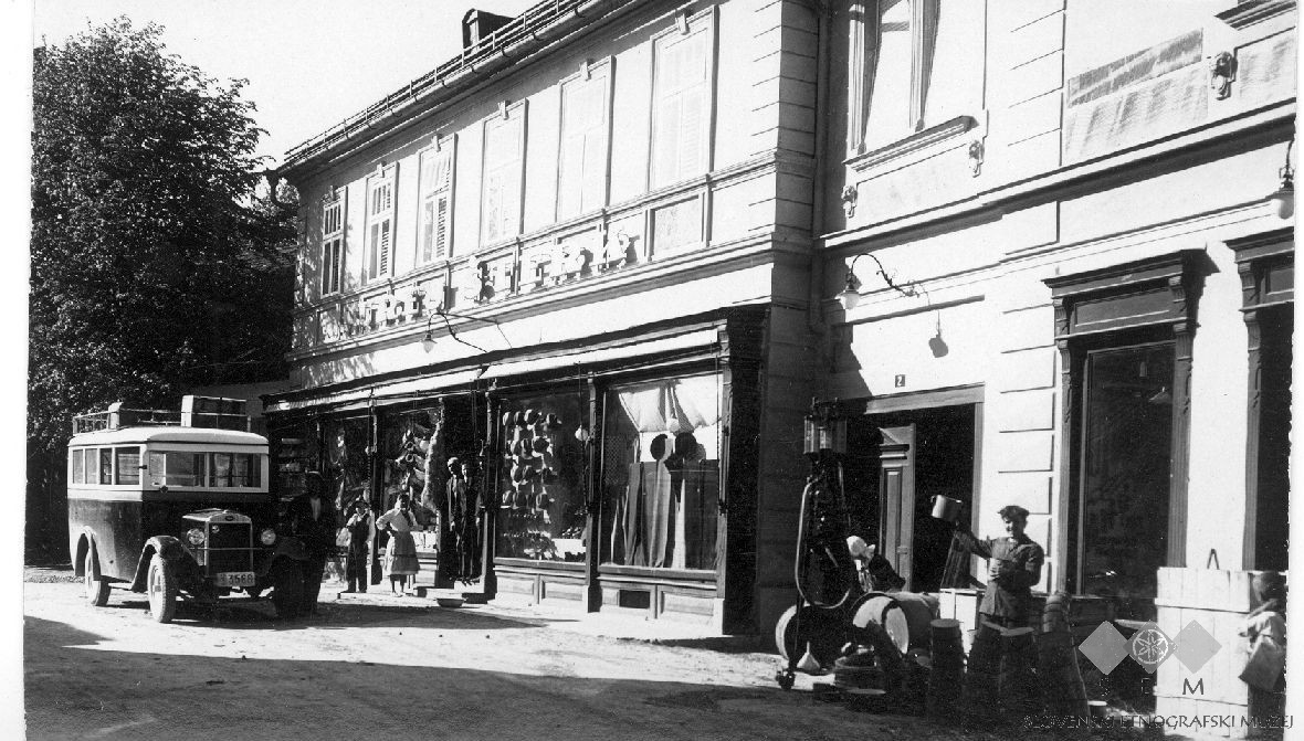 Postcard of Vinica